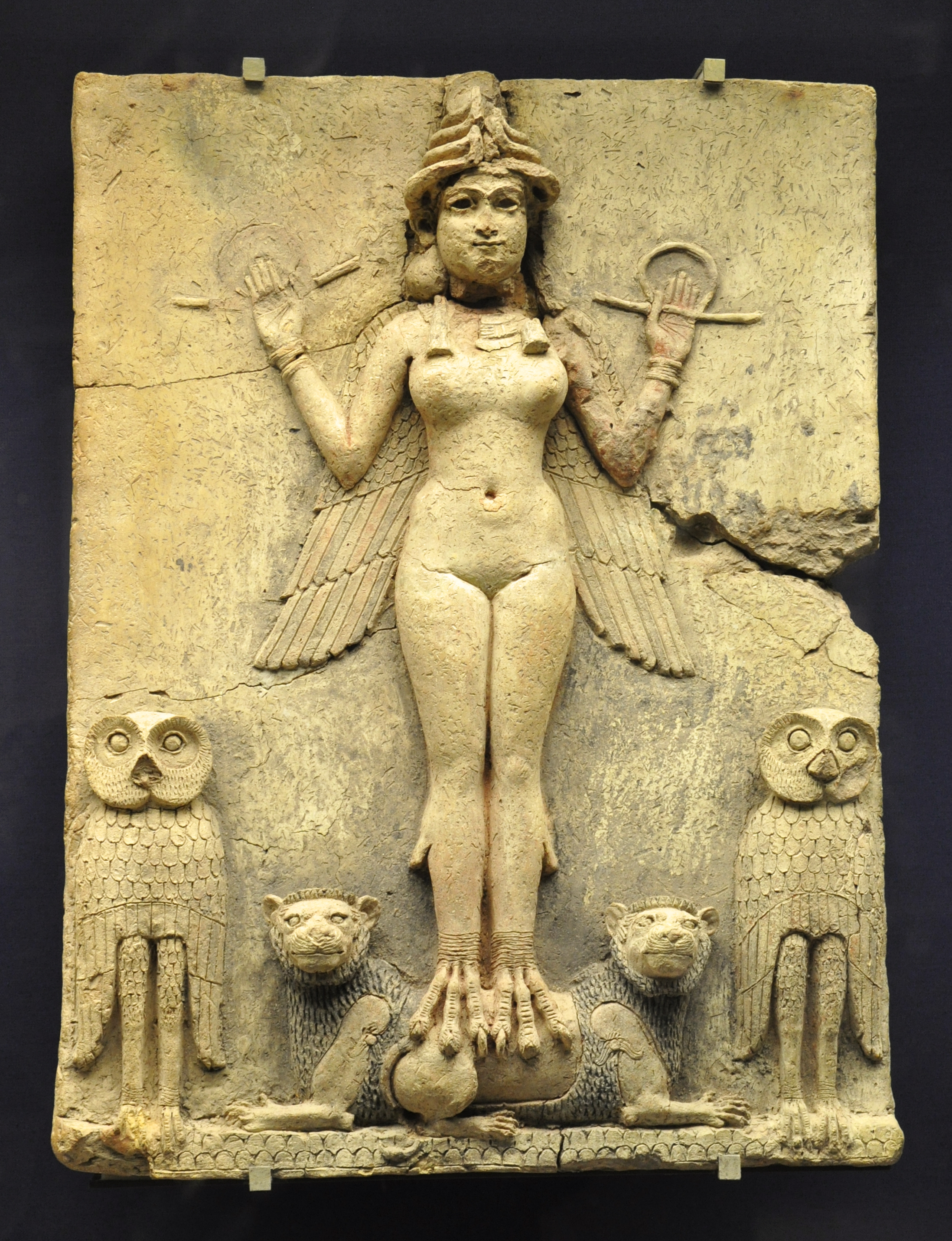 The Queen of the night, relief, 1800-1750 BC.